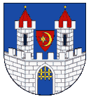 Coat of arms of Louny town, Czech Republic.